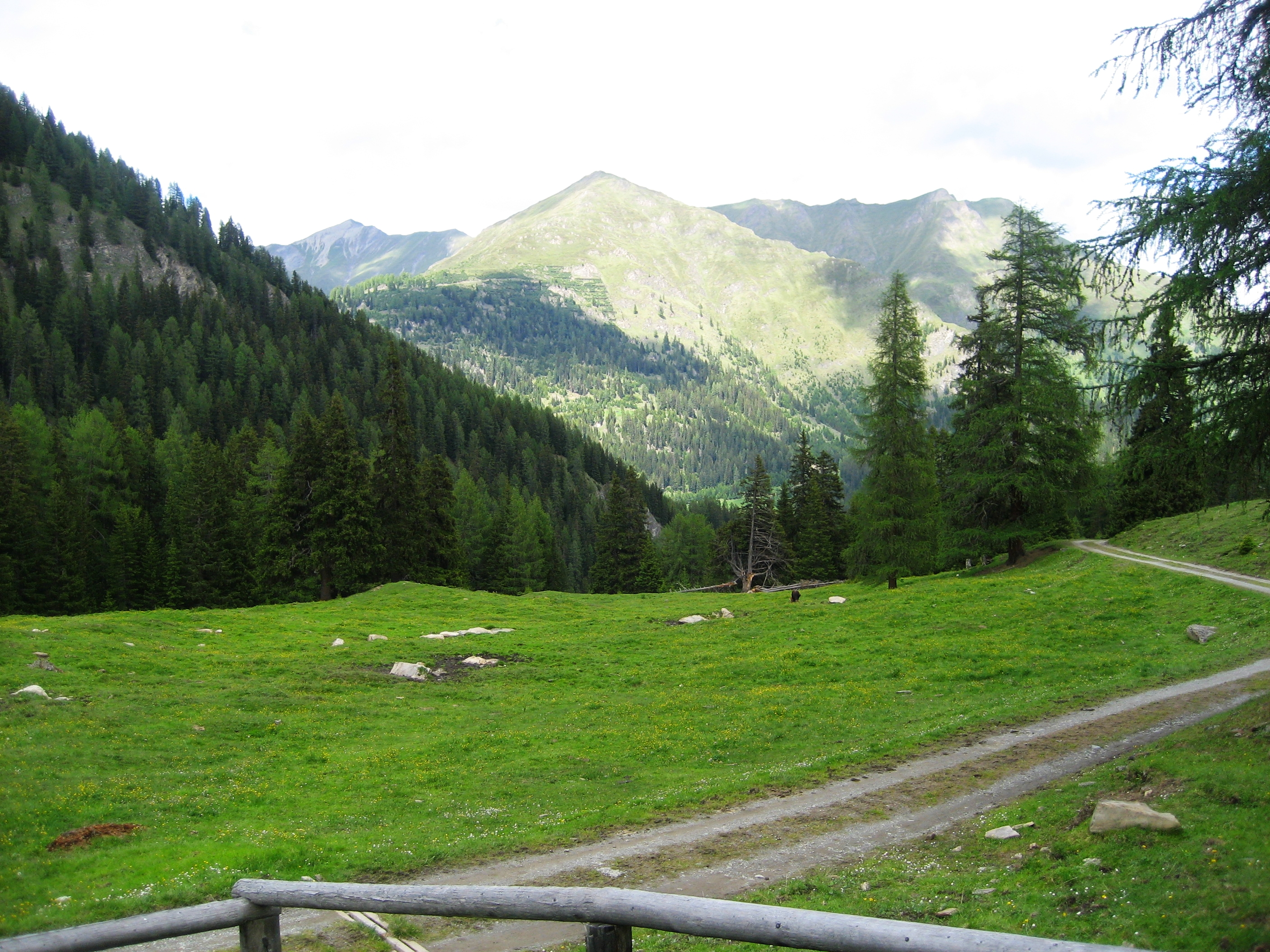 Plan God Nair in Val Sampuoir, Tschlin GR, Switzerland. Direction Muttakopf.